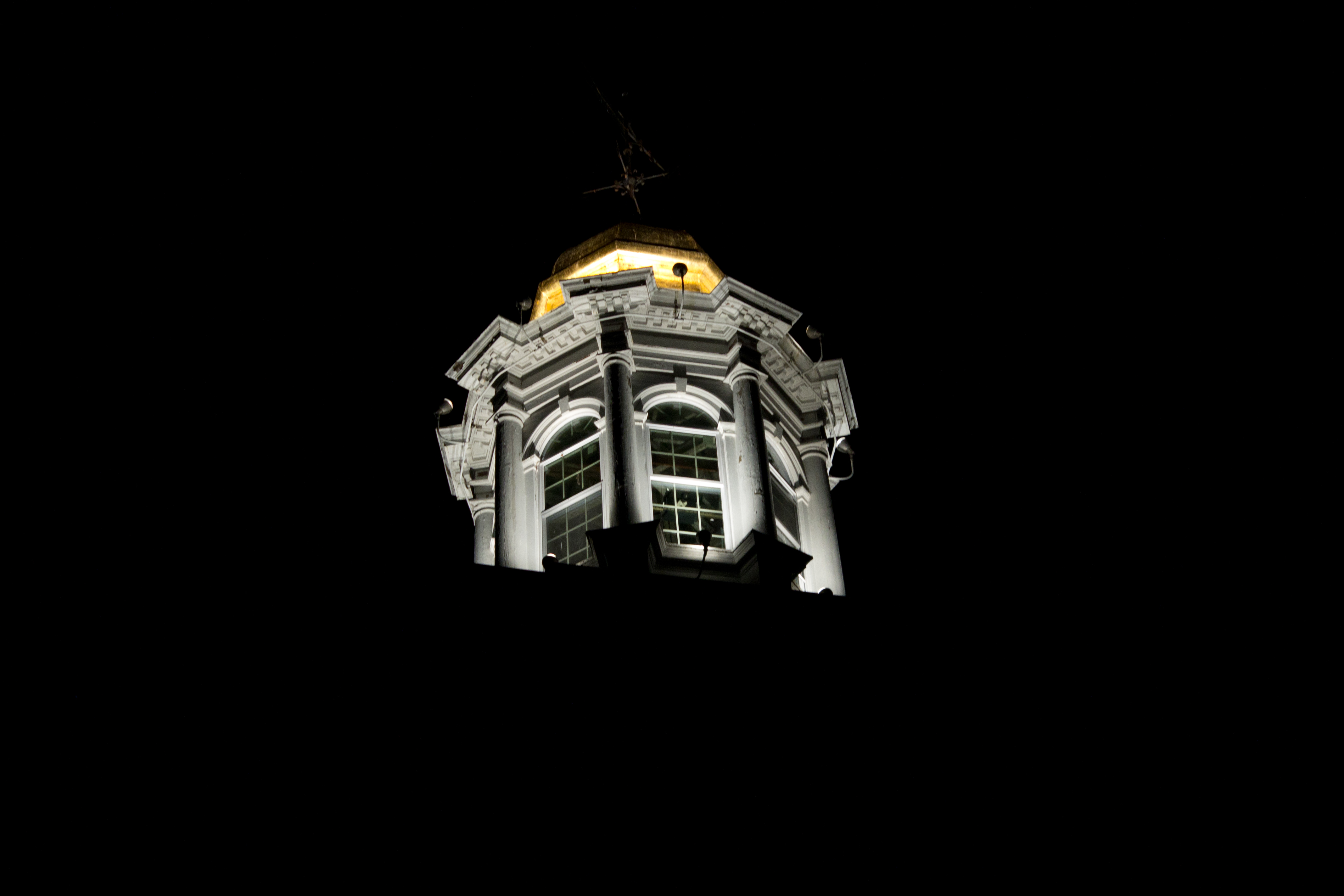 The illuminated steeple of the Colgate University Chapel.